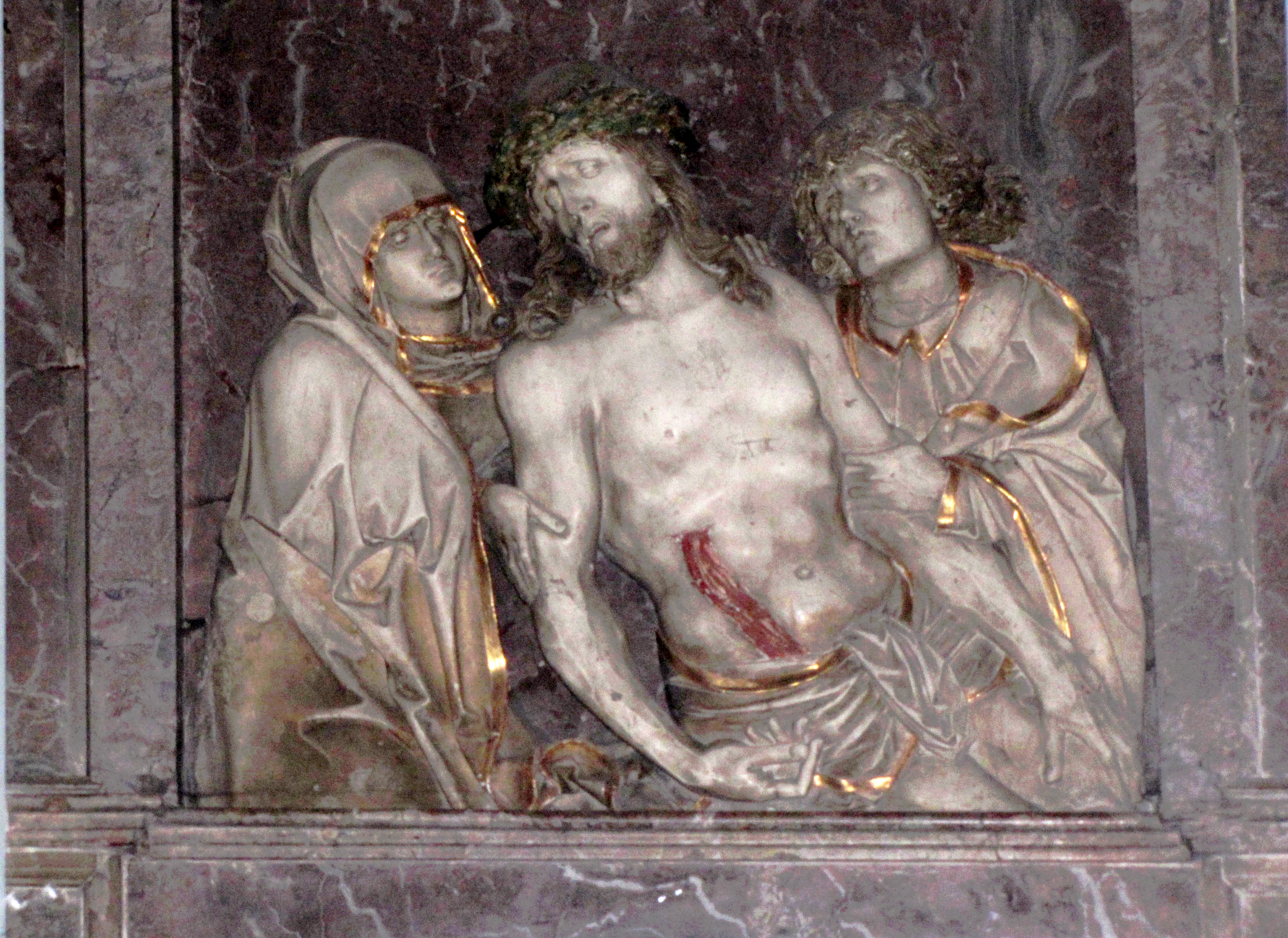 Alsace, Bas-Rhin, Saverne, Église Notre-Dame-de-la-Nativité (PA00084954, IA00055464). Bas-relief "Déploration" (XVIe): This object is classé Monument Historique in the base Palissy, database of the French furniture patrimony of the French ministry of culture, under the references PM67000656 and IM67004318.